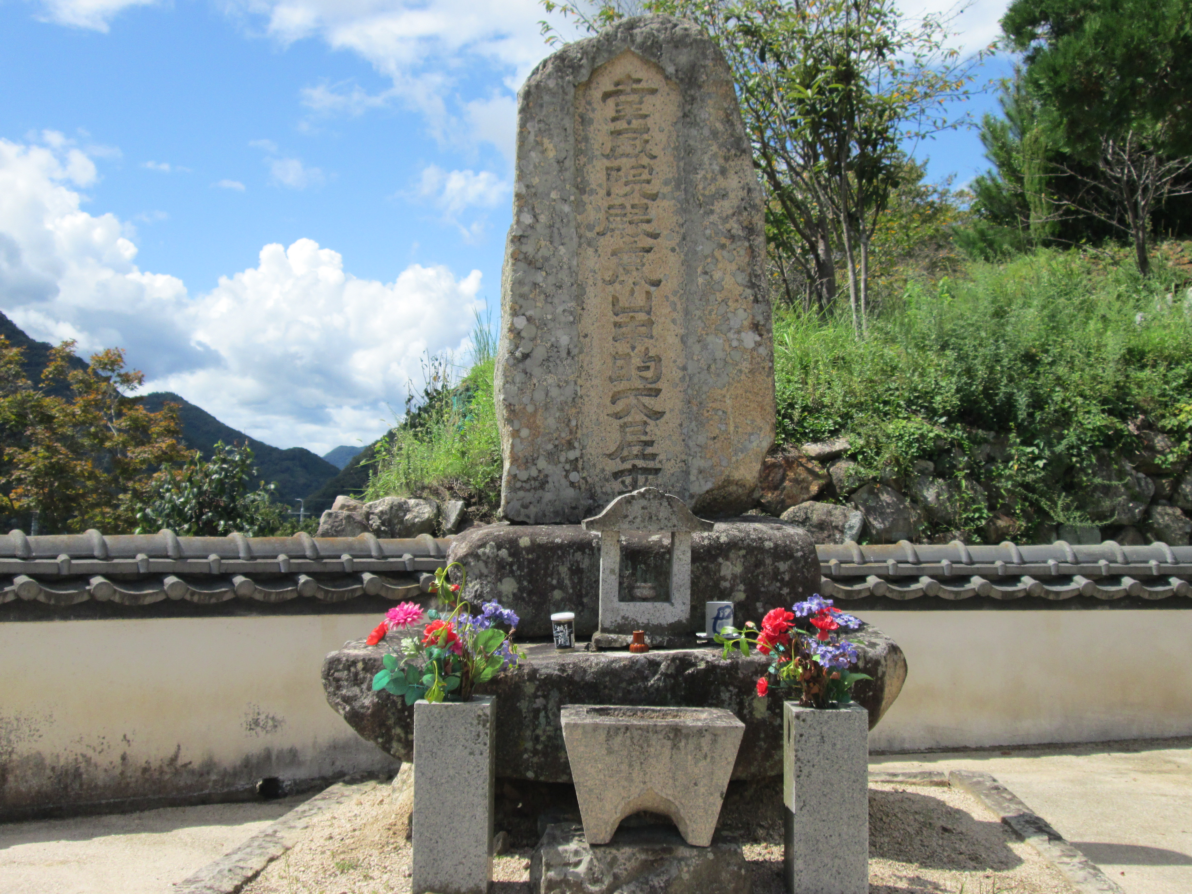 tomb of Yamanaka Yukimori in Ochiaicho, Okayama, Japan